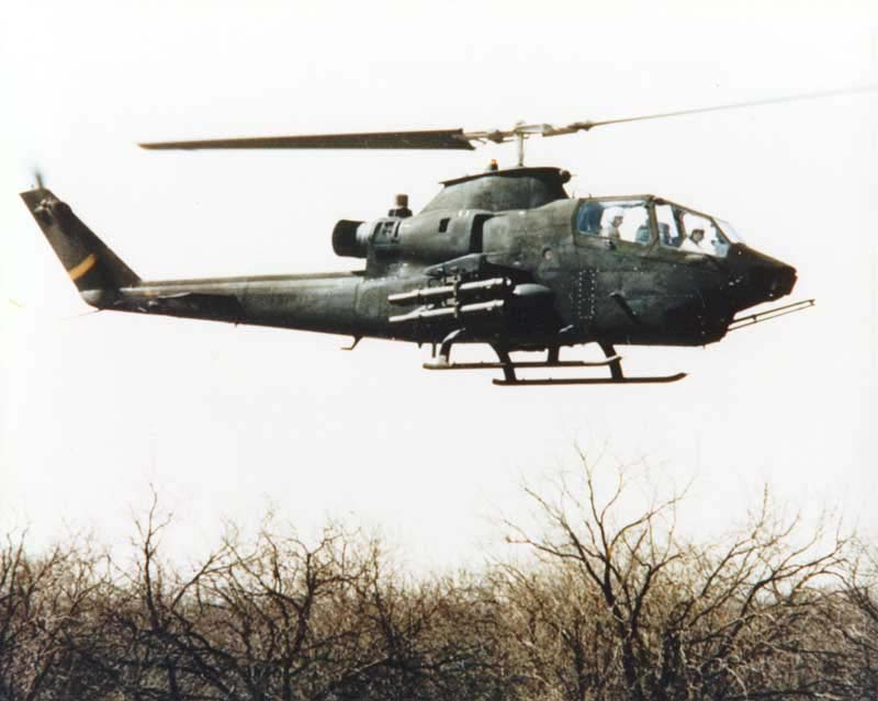 Bell AH-1 Cobra in flight